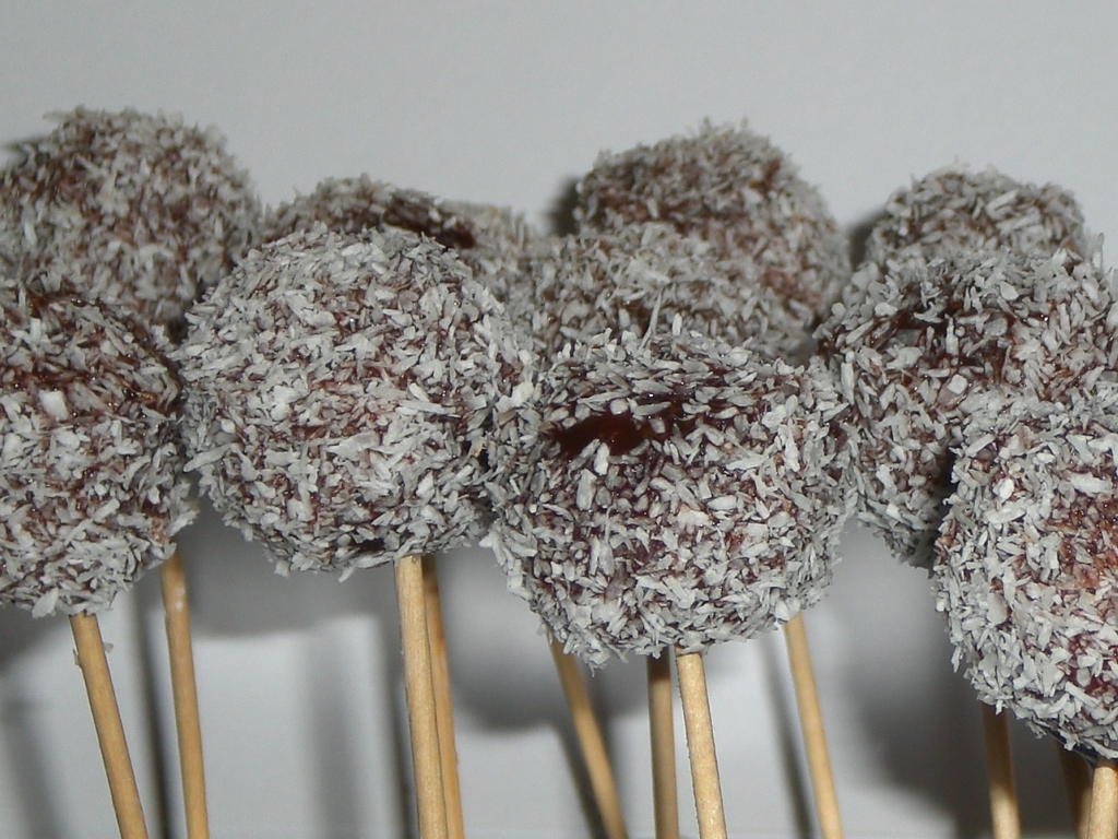 Sponge cake mixed with coconut frosting iced with chocolate and rolled in coconut flakes